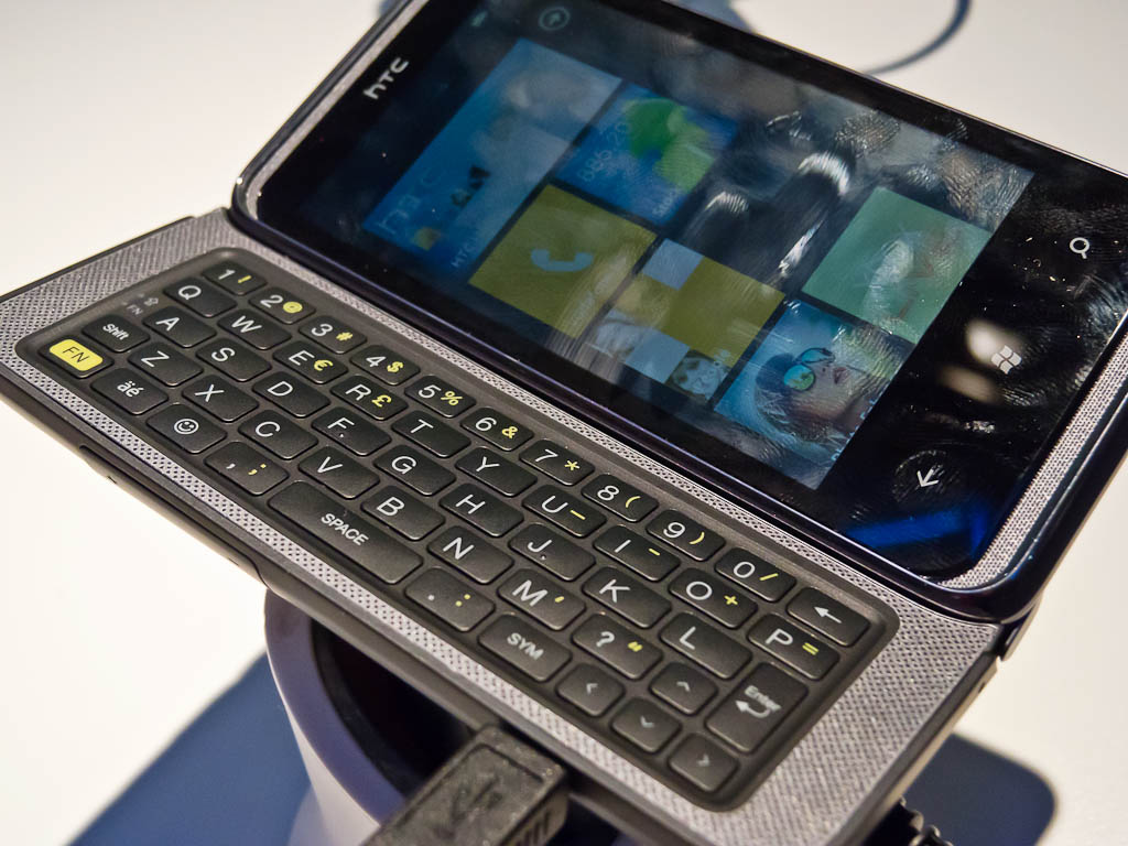 Codenamed HTC Arrived